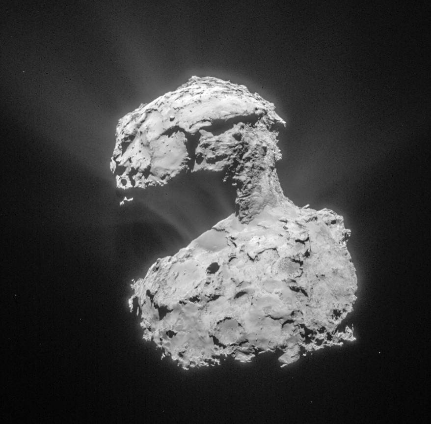 This single frame Rosetta navigation camera image was taken from a distance of 85.7 km from the centre of Comet 67P/Churyumov-Gerasimenko on 14 March 2015. The image has a resolution of 7.3 m/pixel and measures 6.4 x 6.3 km. The image is cropped and processed to bring out the details of the comet's activity. More information and the original image via the blog: CometWatch 14 March Credit: ESA/Rosetta/NAVCAM – CC BY-SA IGO 3.0 This work is licenced under the Creative Commons Attribution-ShareAlike 3.0 IGO (CC BY-SA 3.0 IGO) licence. The user is allowed to reproduce, distribute, adapt, translate and publicly perform this publication, without explicit permission, provided that the content is accompanied by an acknowledgement that the source is credited as 'ESA - European Space Agency’, a direct link to the licence text is provided and that it is clearly indicated if changes were made to the original content. Adaptation/translation/derivatives must be distributed under the same licence terms as this publication. The user must not give any suggestion that ESA necessarily endorses the modifications that you have made. No warranties are given. The license may not give you all of the permissions necessary for your intended use. For example, other rights such as publicity, privacy, or moral rights may limit how you use the material. Any of the above conditions can be waived if you get permission from ESA. To view a copy of this license, please visit